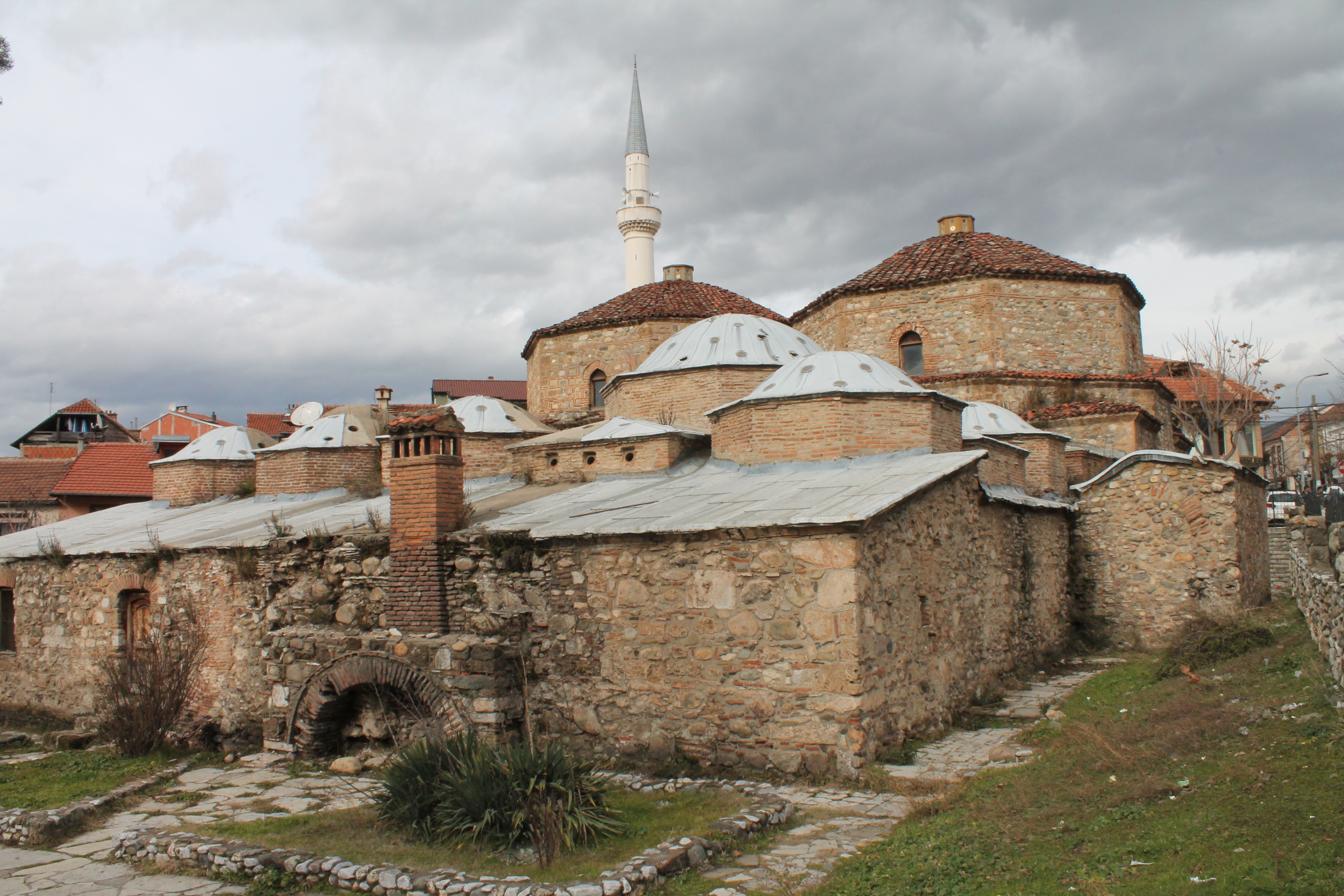 Hamami i Vjetër i Prizrenit 2